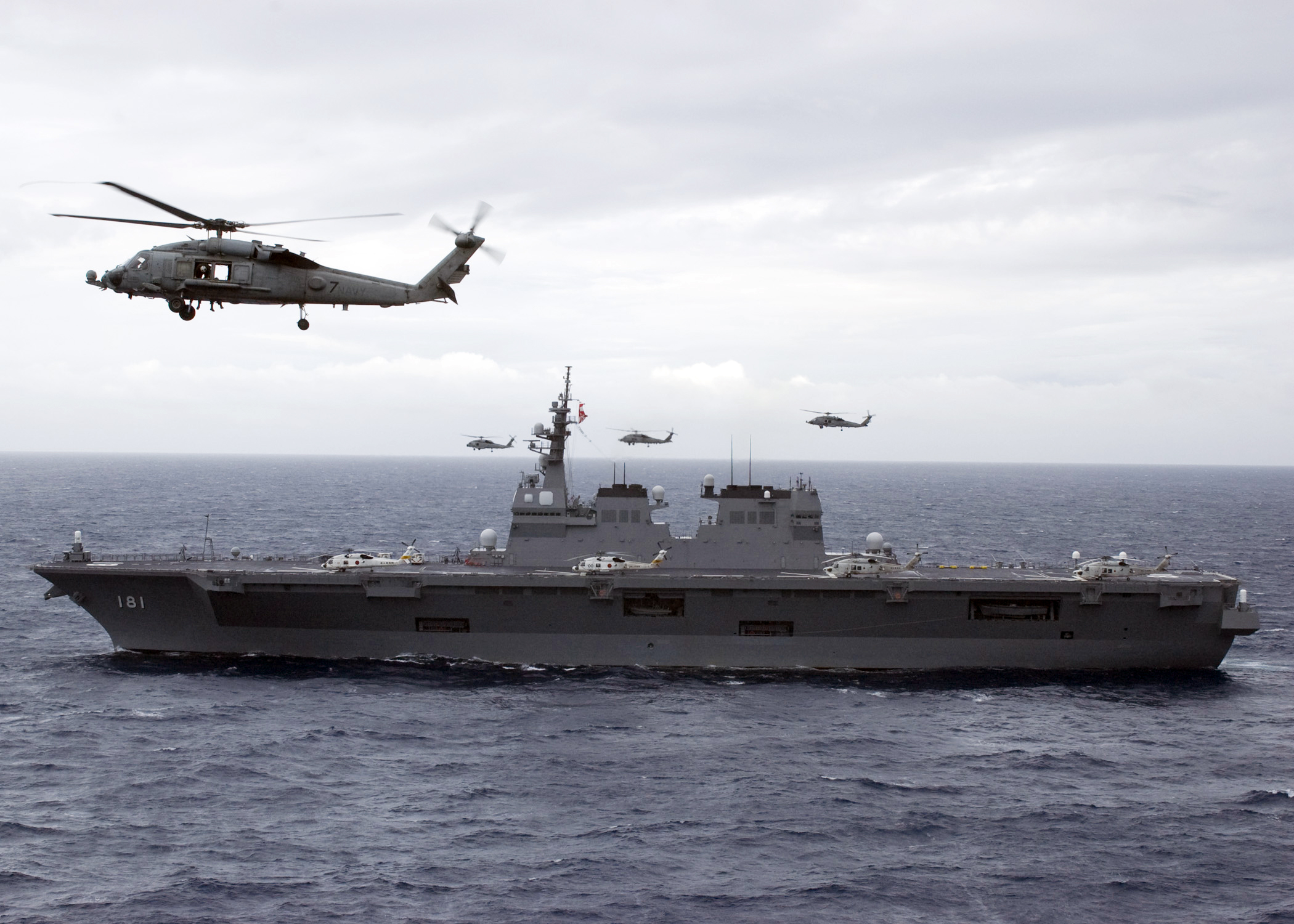 PACIFIC OCEAN (Nov. 17, 2009) - The Japan Maritime Self-Defense Force helicopter destroyer JS Hyuga (DDH-181) is underway in the Pacific Ocean as Sea Hawk helicopters from the Chargers of Helicopter Anti-Submarine Squadron (HS) 14 fly in formation alongside the ship. Ships from the U.S. Navy and Japan Maritime Self-Defense Force are participating in Annual Exercise (ANNUALEX 21G), a bilateral exercise designed to enhance the capabilities of both naval forces. Nikon D70s